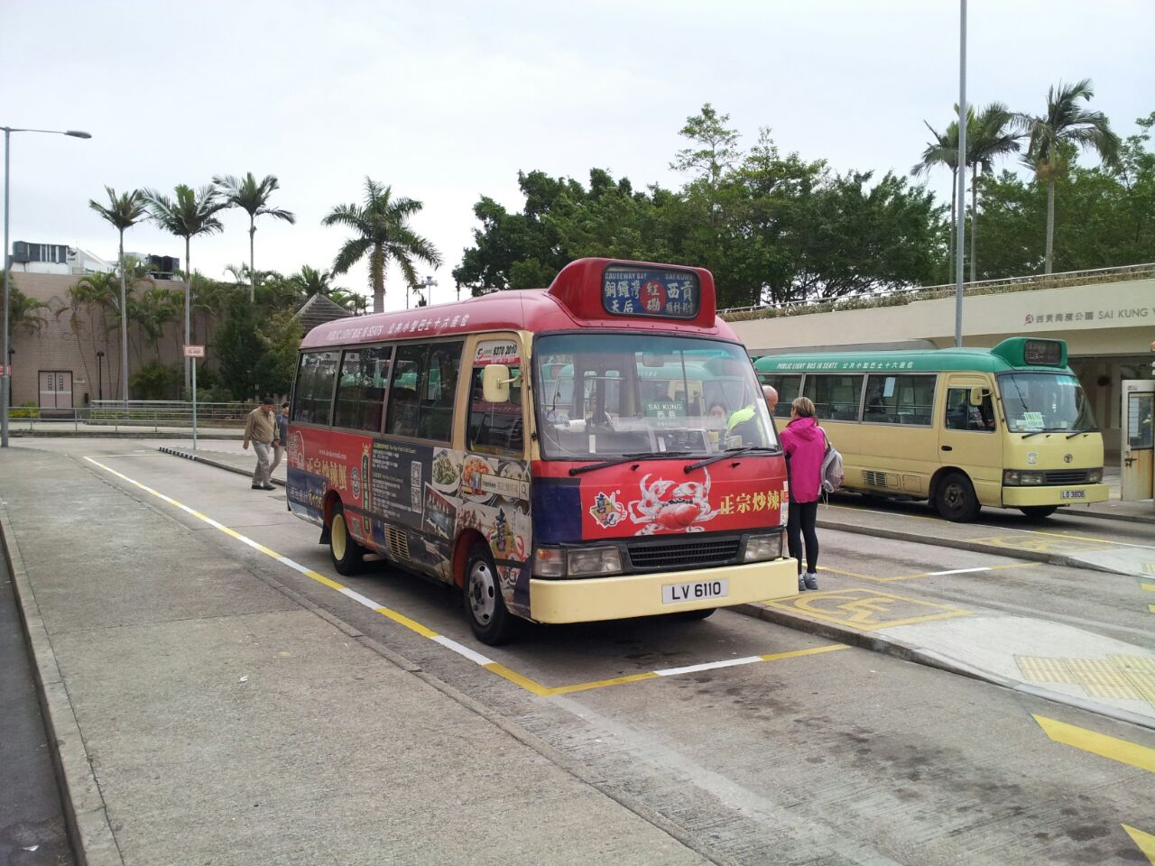 中文（香港）: This photo is taken in Sai Kung.